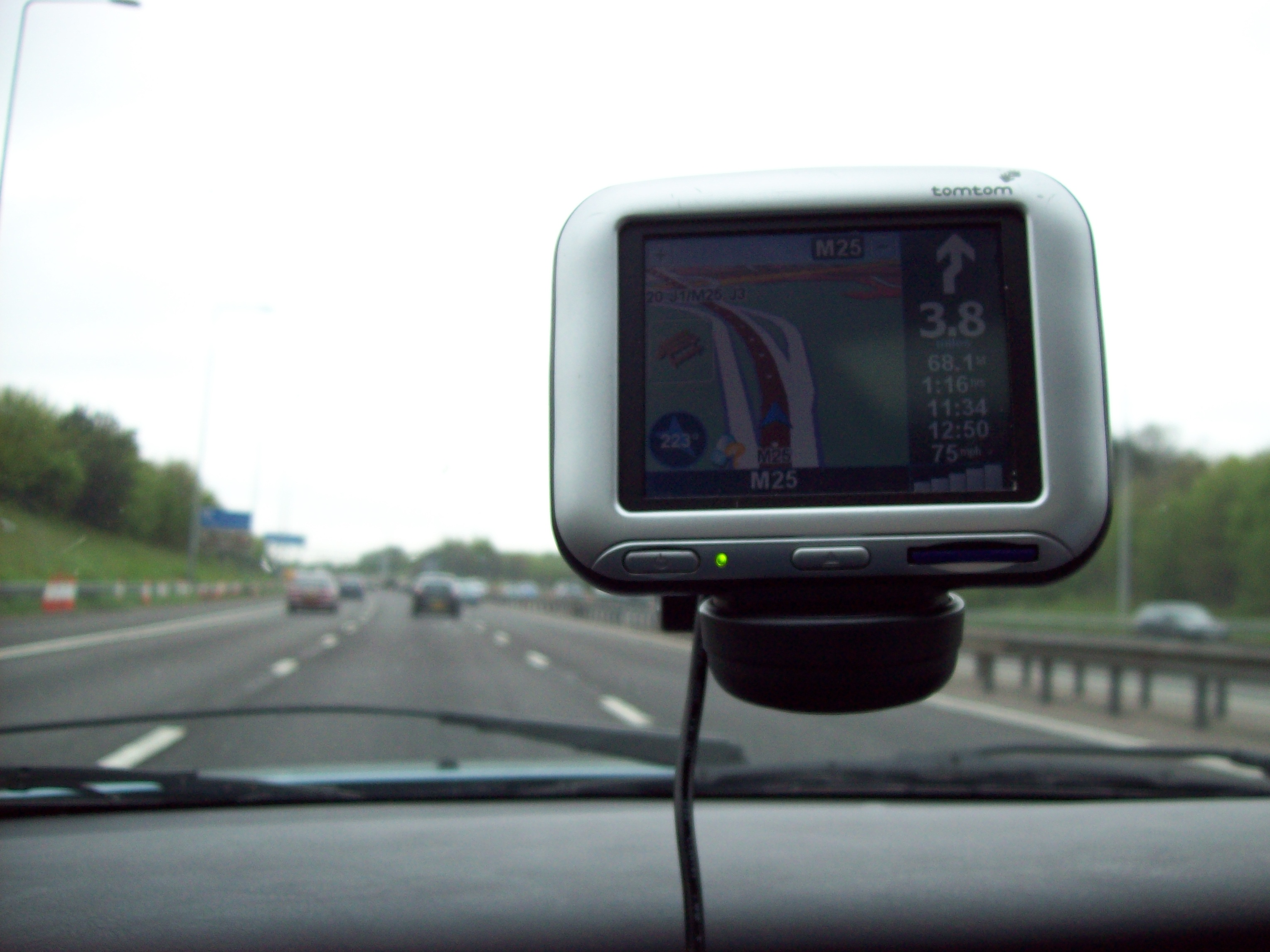 Photo of TomTom Go 500